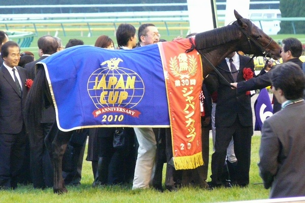 Rose-Kingdom20101128